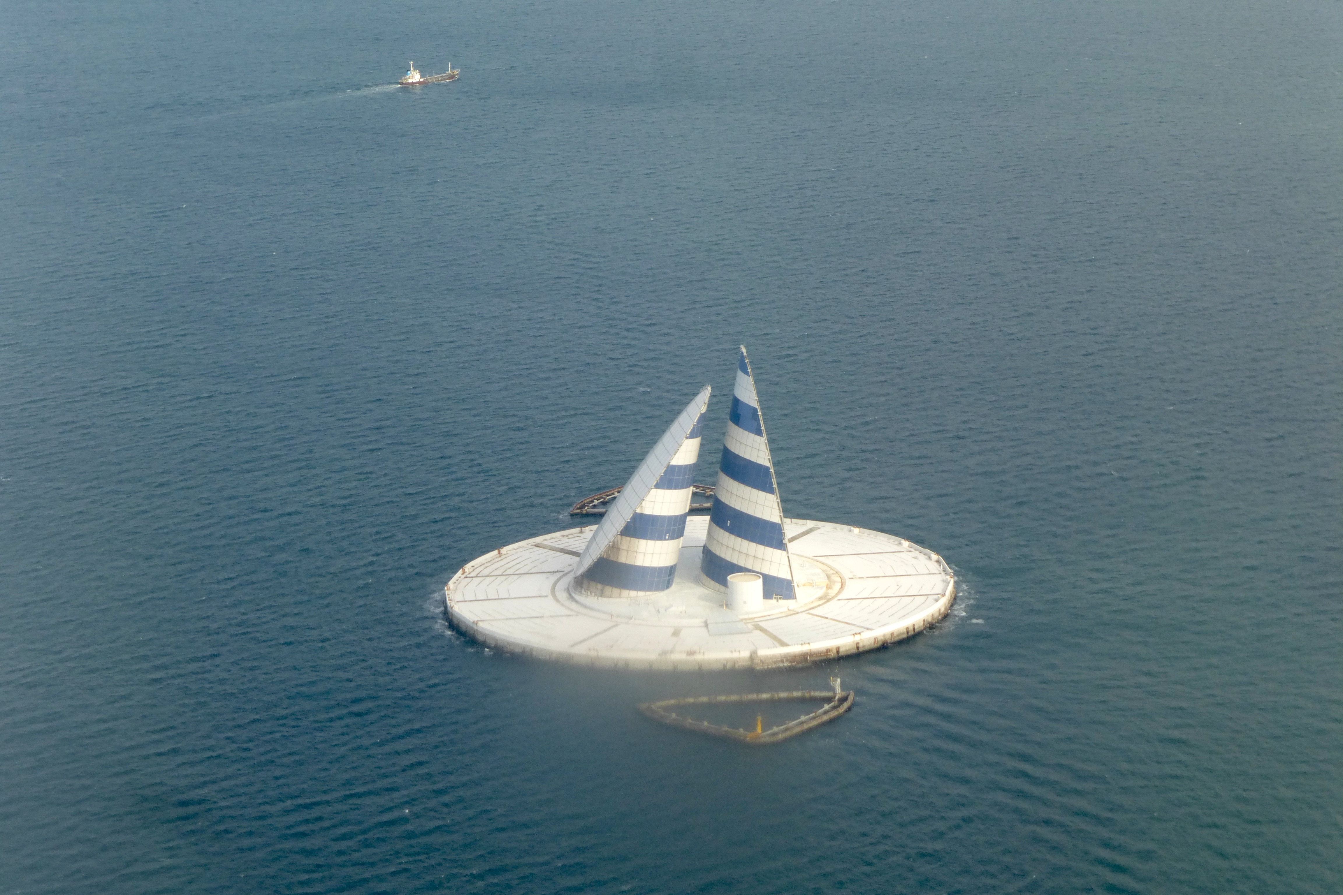 Kaze no Tō, "the tower of wind"